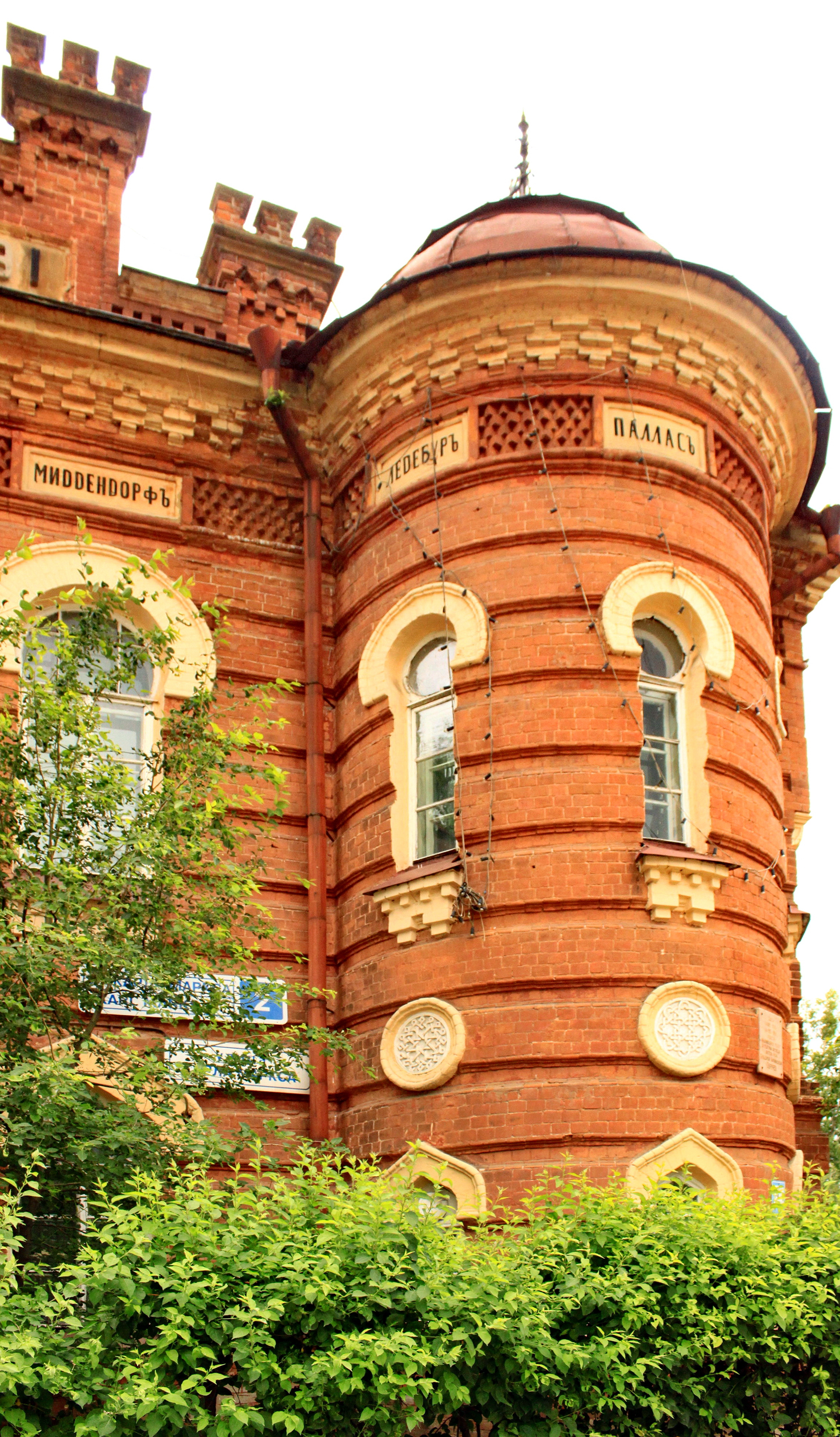 Irkutsk Regional Museum. Irkutsk, Irkutsk Oblast, Russia.